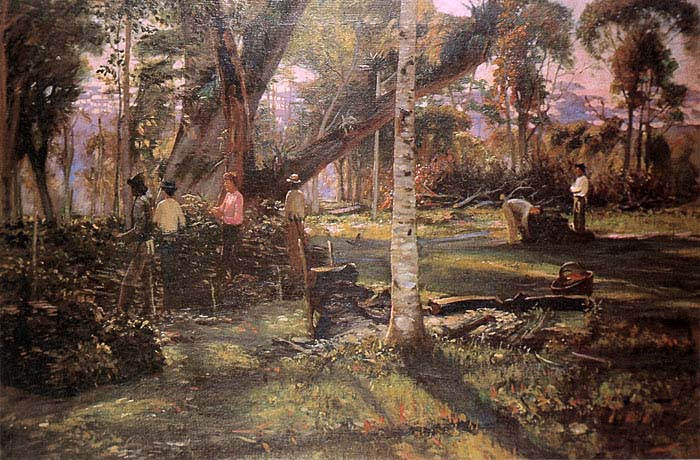 Sapeco da Erva Mate